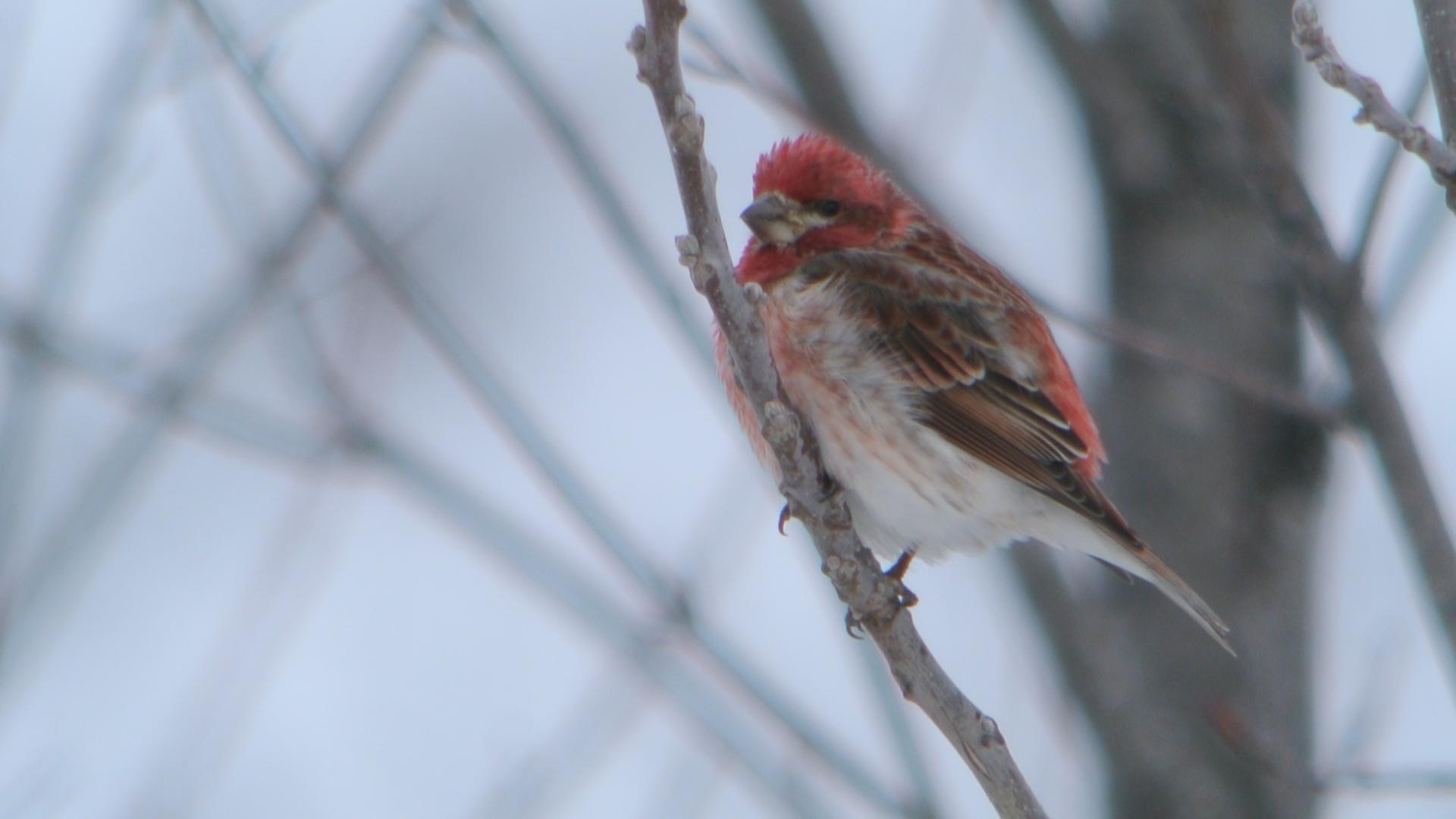 March 3, 2013 - We ventured far to the northeast corner of the state (Alexandria MO...Andy is from Alexandria VA, go figure) to witness our first Evening Grosbeak. We thank Joyce and Larry so much for the joy! Purple Finch and other birds were added treasures of the experience. It was 16 degrees! Marc Lund was a fellow fun adventurer on this trip. Taking photos of a life bird is like taking photos of your first baby - you take tons...of every move they make...and make over every gesture, no matter how small, and you refuse to get rid of any.